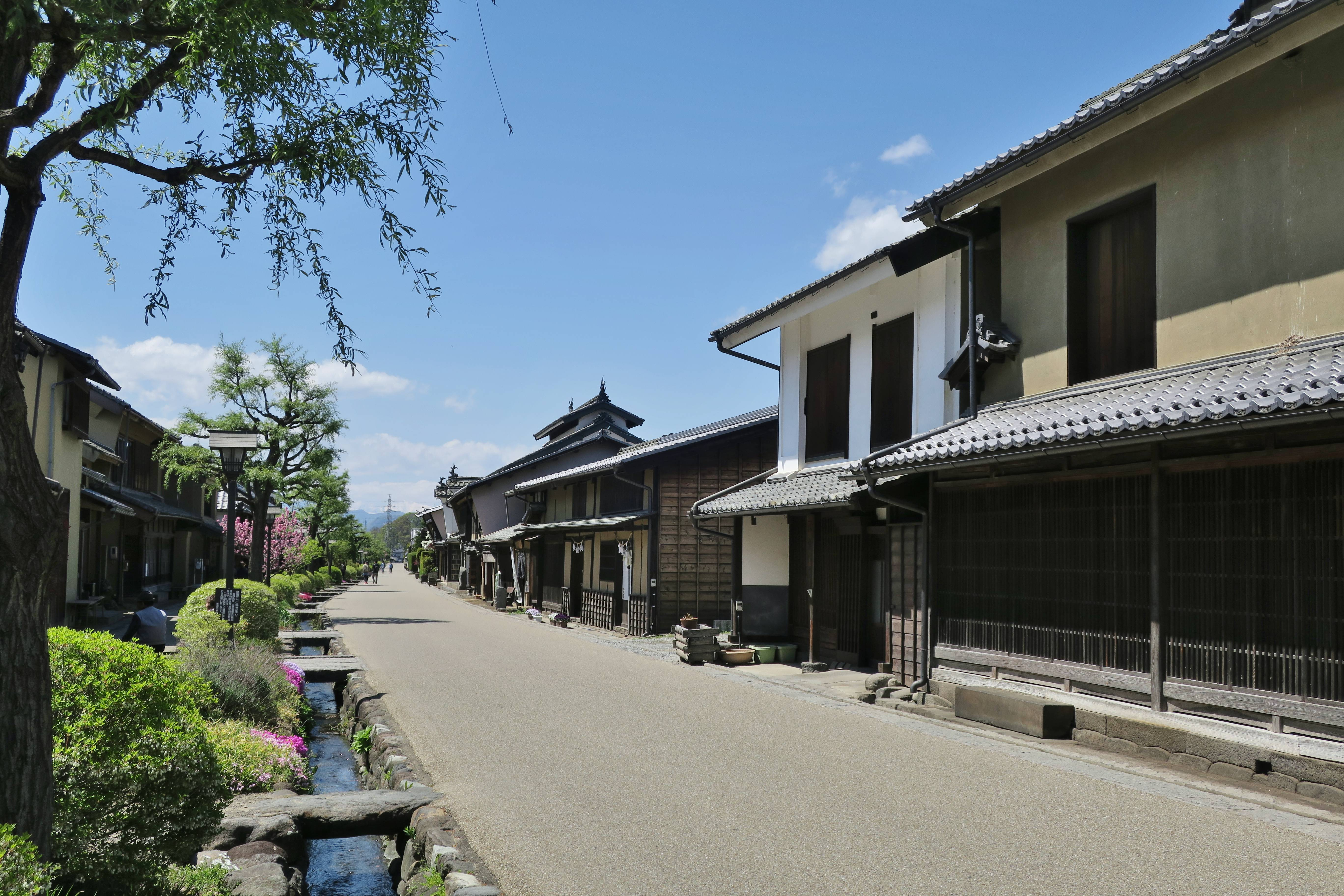 Unno-juku (Tōmi, Nagano).